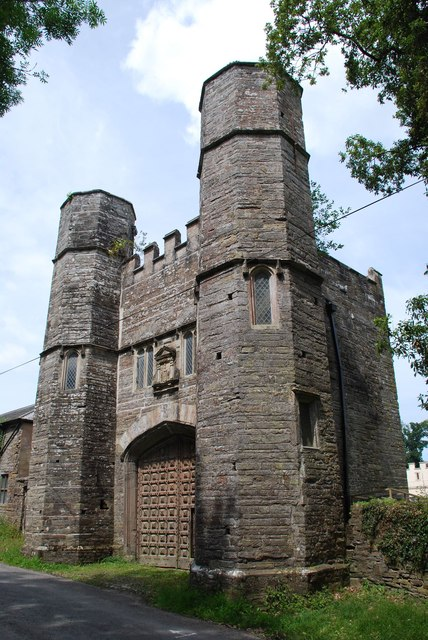 Tudor Gatehouse of Tawstock Court, Tawstock, North Devon, seen from the southeast